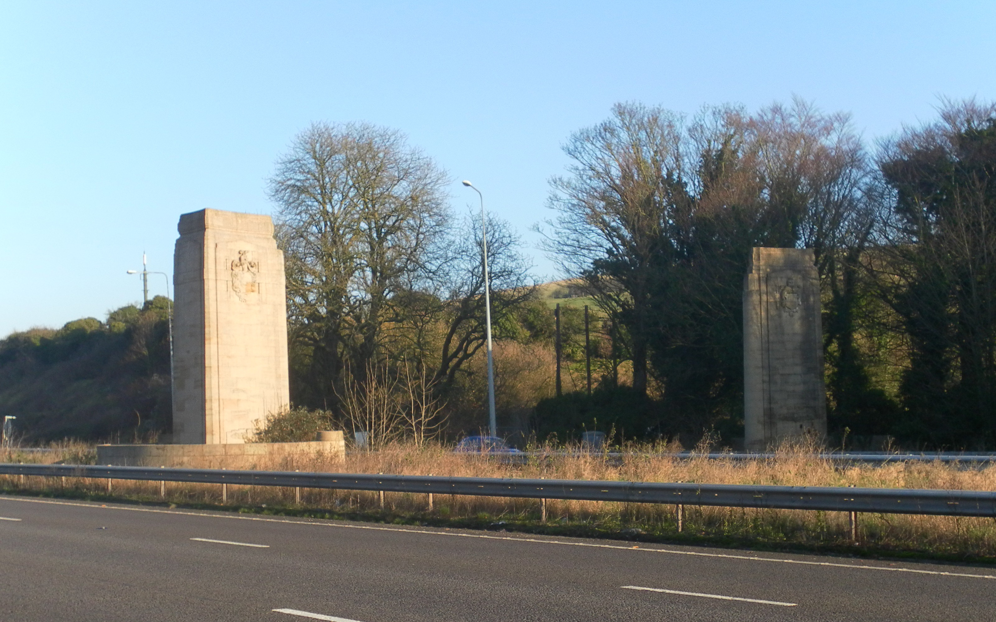 The Pylons at the A23 (London Road), north of Patcham, City of Brighton and Hove, England. These, and the seats at their base, are individually listed at Grade II by English Heritage. They were designed in 1928 by John Leopold Denman to commemorate the extension of the Brighton Borough boundary, which reached this geographical point as from 1 April of that year.